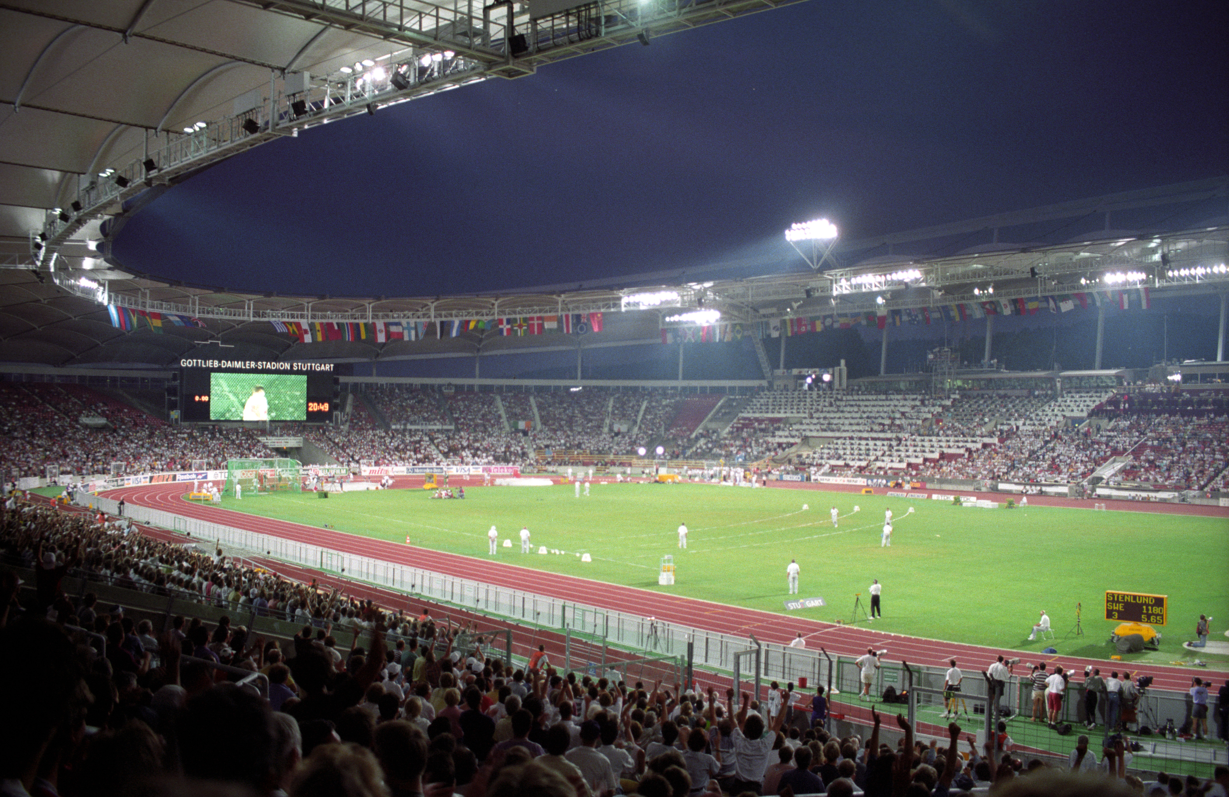 Overview of Gottlieb-Daimler Stadium, in Stuttgart, during the 1993 World Championships in Athletics.